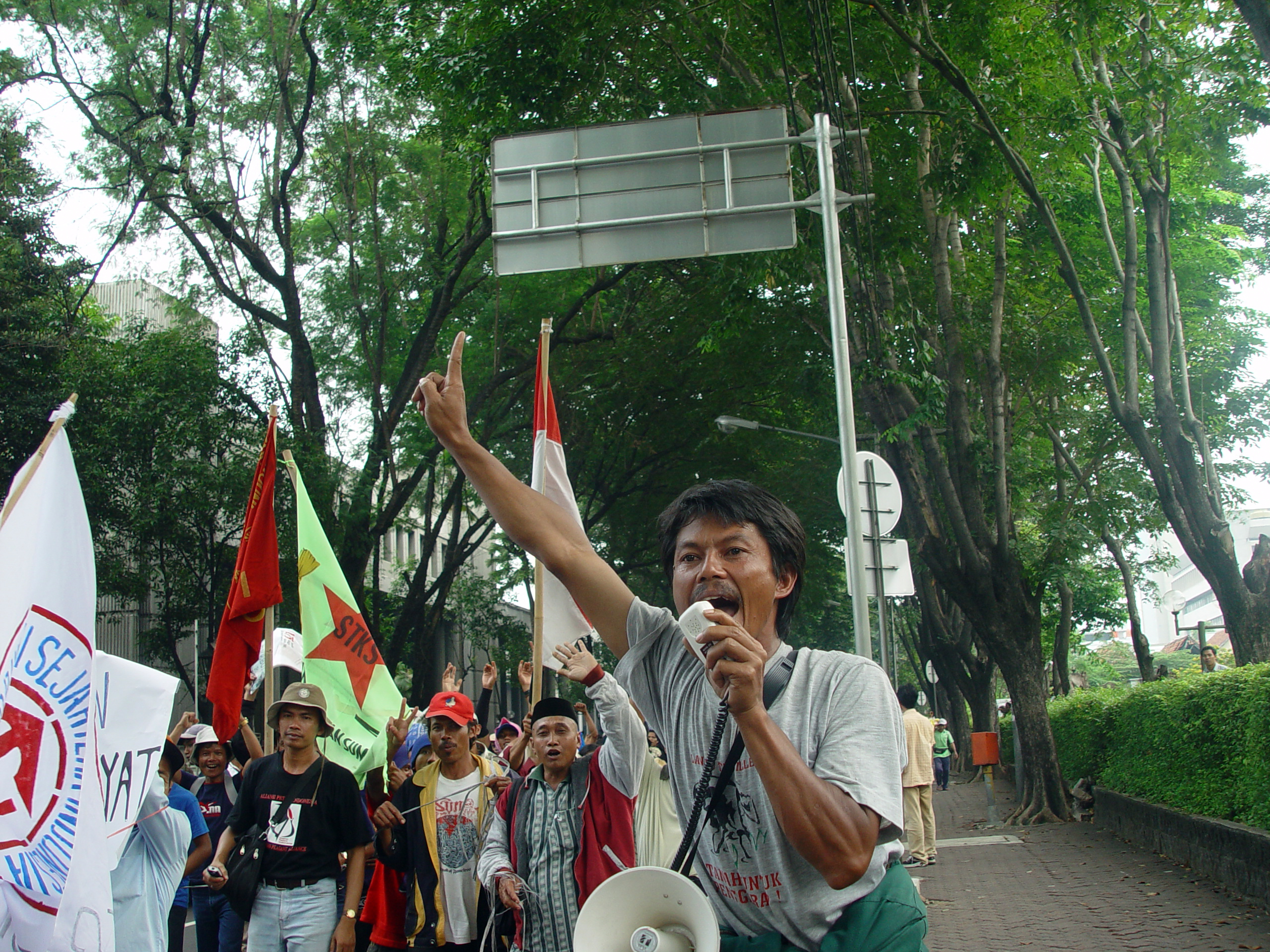 Farmer land rights protest in Jakarta, Indonesia.